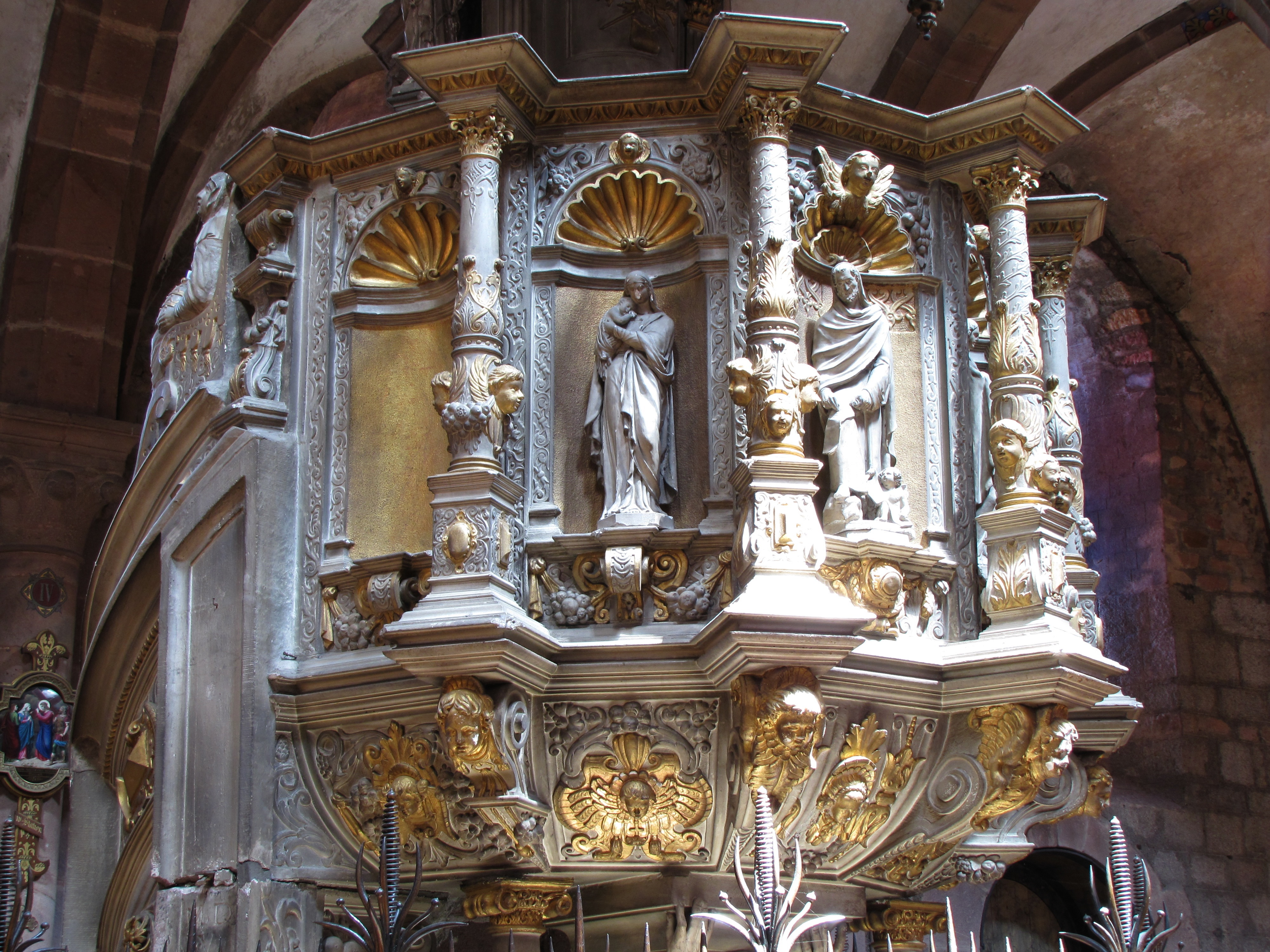 Alsace, Bas-Rhin, Sélestat, Église Saint-Georges (PA00084978, IA00124588). Abat-voix de la chaire à prêcher (1619): This object is classé Monument Historique in the base Palissy, database of the French furniture patrimony of the French ministry of culture, under the references PM67000314 and IM67008853. Statues (Ignace et Anne-Catherine SICHLER, 1845)